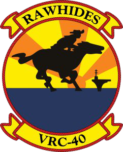 Insignia of the U.S. Navy Fleet Logistics Support Squadron 40 (VRC-40) "Rawhides". The insignia was approved on 23 September 1991.